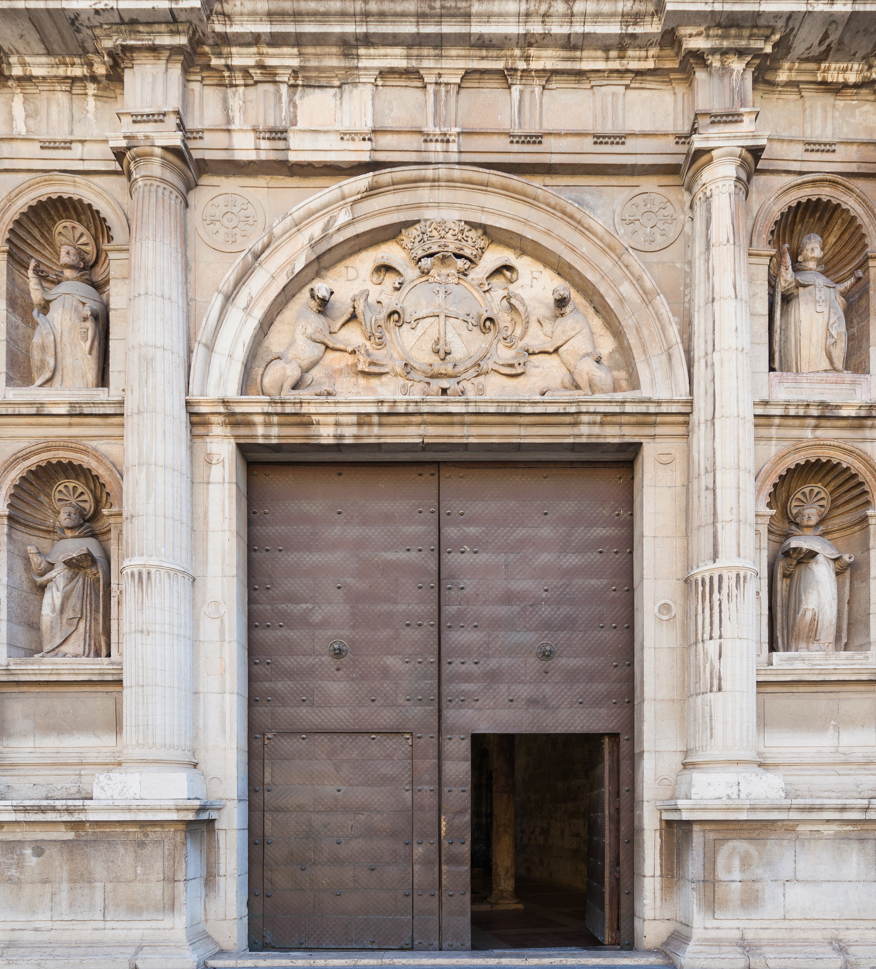 Convent of Santo Domingo, Valencia, Spain